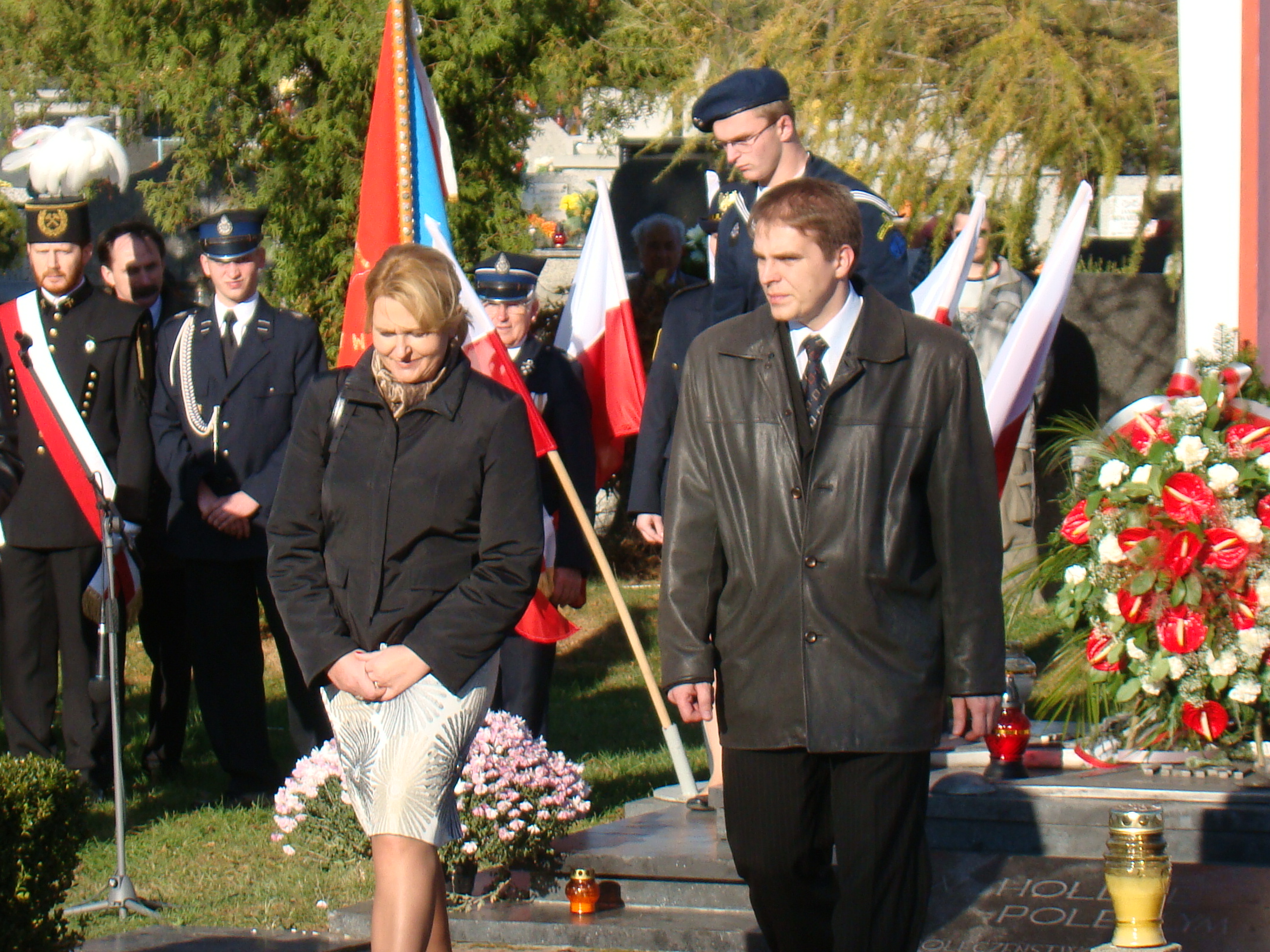 (MP) Mrs Elżbieta Łukacijewska. Sanok, Poland. 2008 11 November.